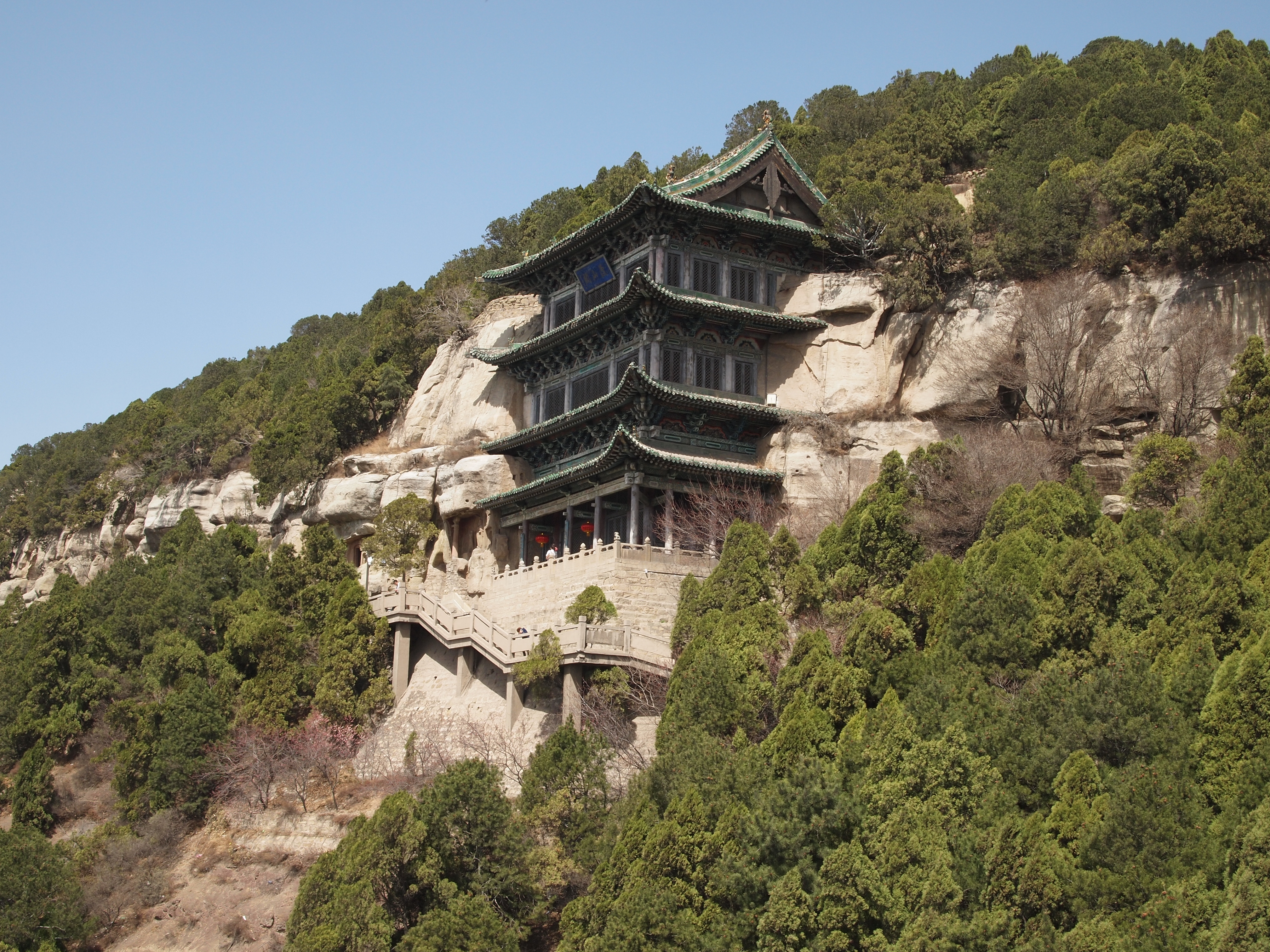 Tianlongshan Grotto - Manshan Pavillion, Taiyuan, Shanxi